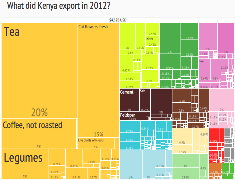 2012 Kenya Products Export Treemap